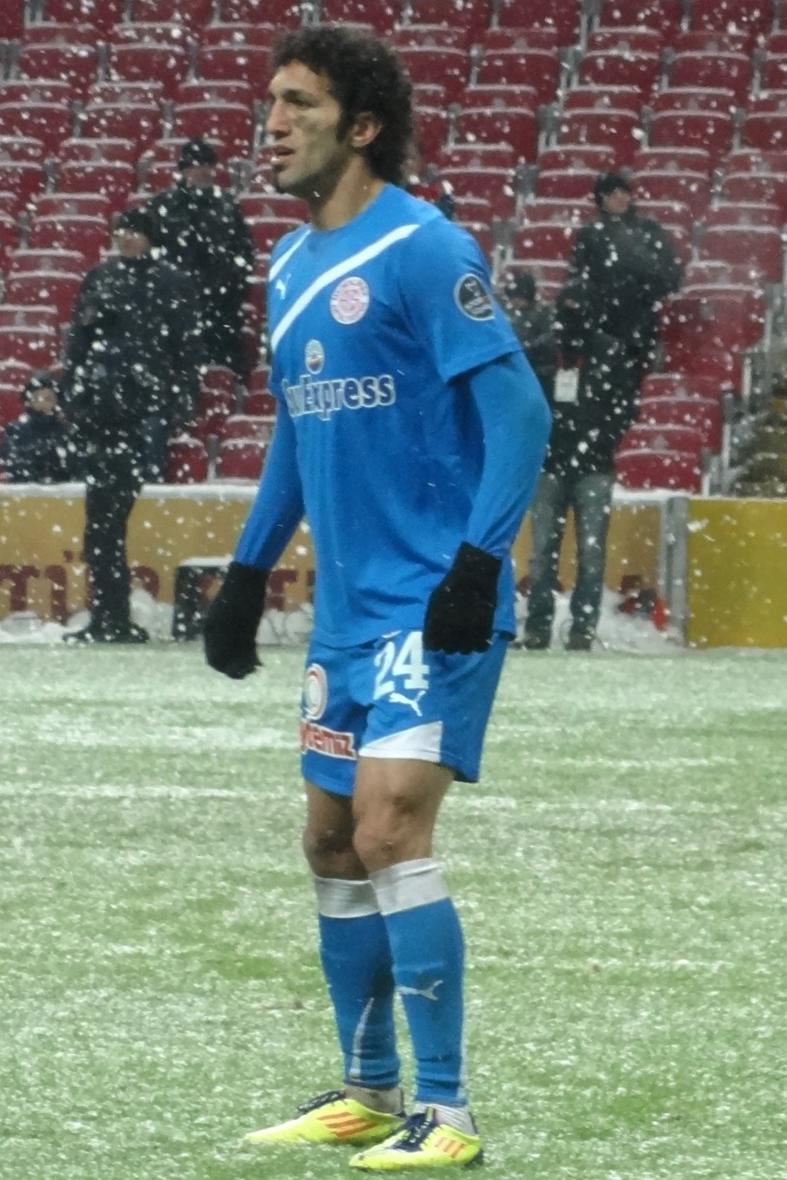 Deniz vs Galatasaray